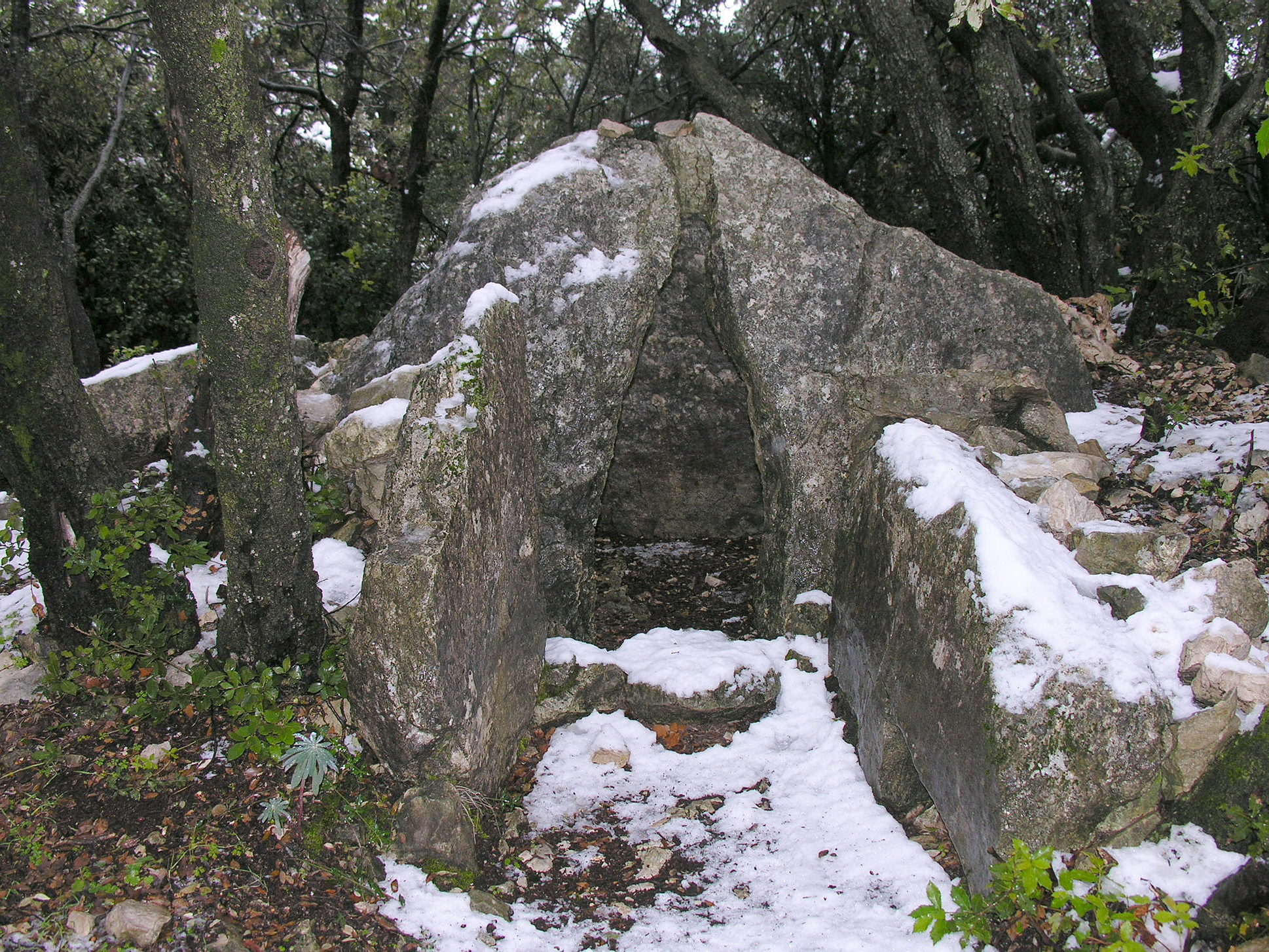 Dolmen of "Riens" in Mons(Var)